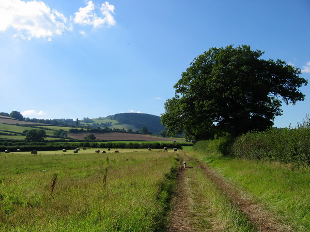 The Three Castles Walk A flat section before heading to High Meadow in the distance and then on to Grosmont.